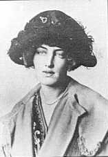 Gladys Deacon, later Gladys Spencer-Churchill, Duchess of Marlborough